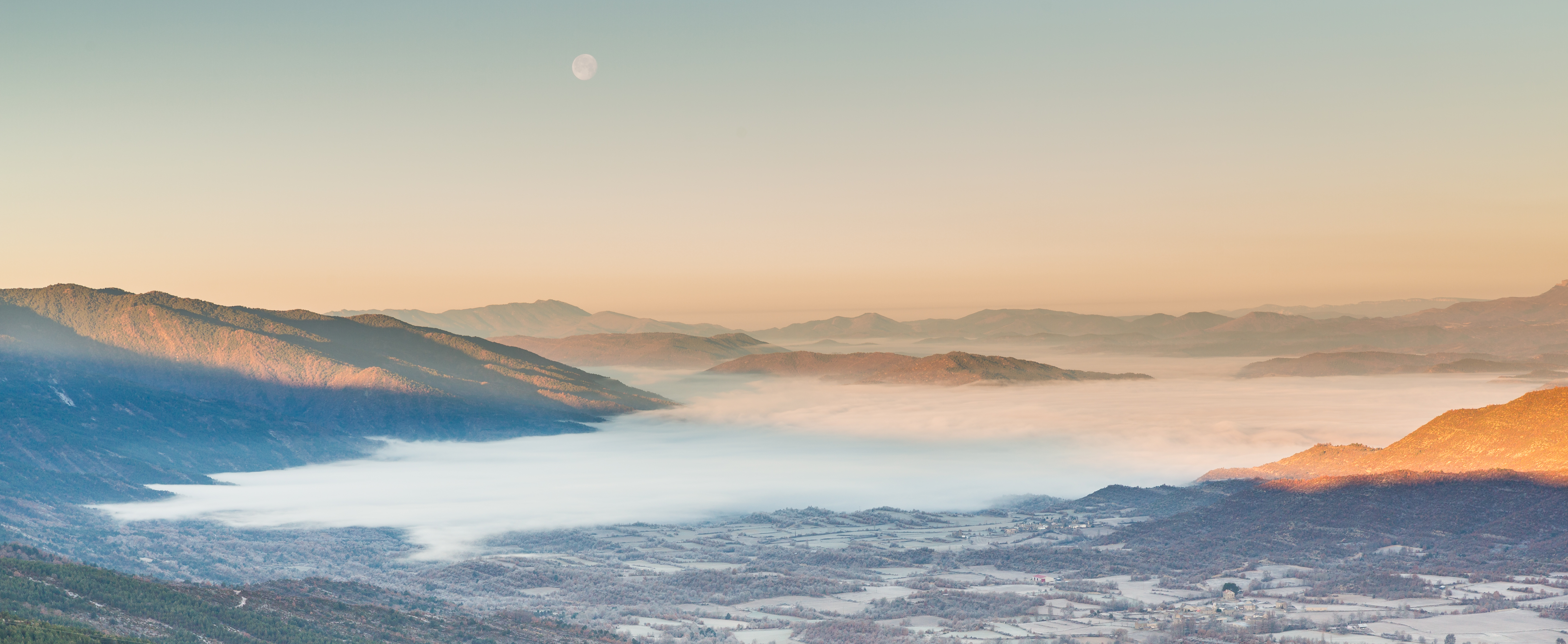 Landscape in Alto Gállego, LIC Sierras de SanJuan de la Peña y Peña Oroel, Huesca, Spain